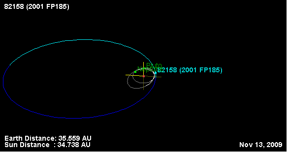 (82158) 2001 FP185 orbit